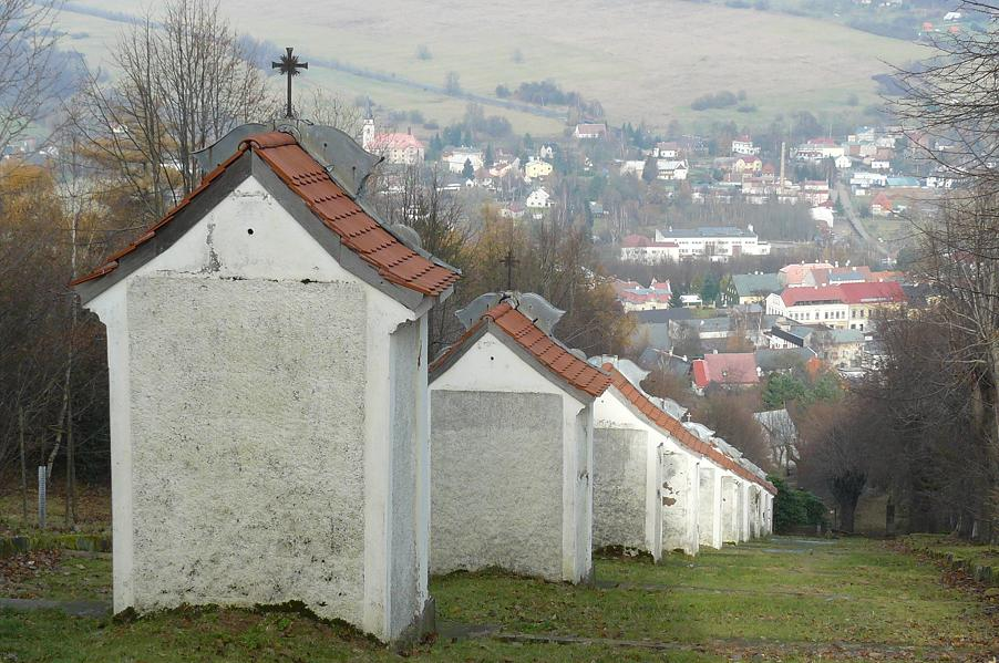 Jiřetín pod Jedlovou - Stations of Calvary.